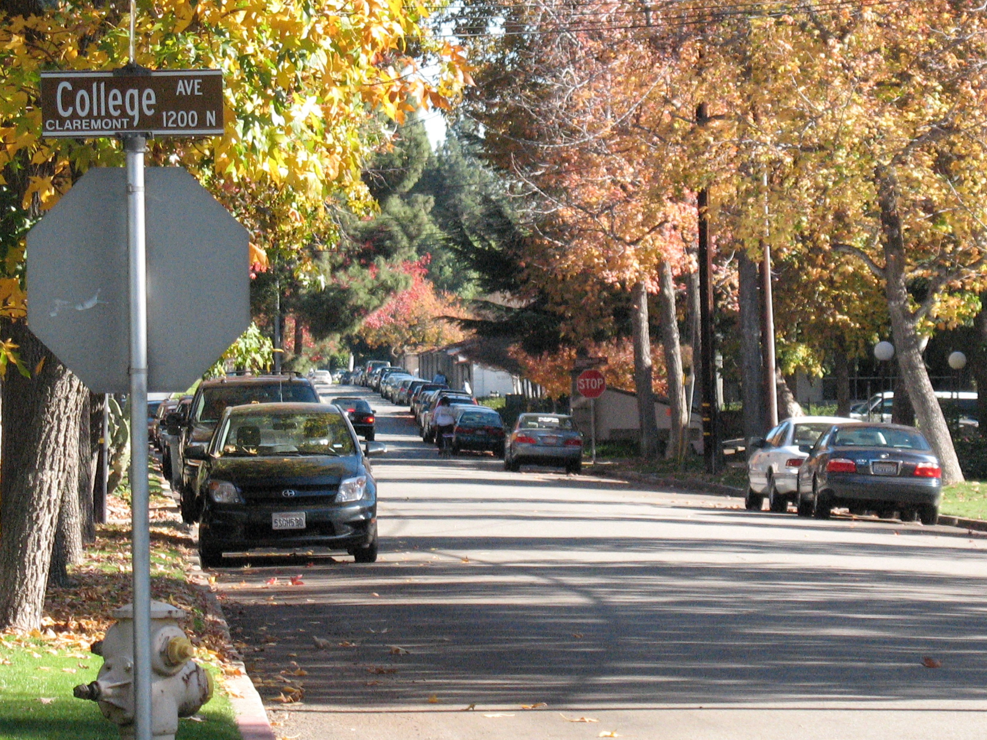 The University as seen from College Avenue